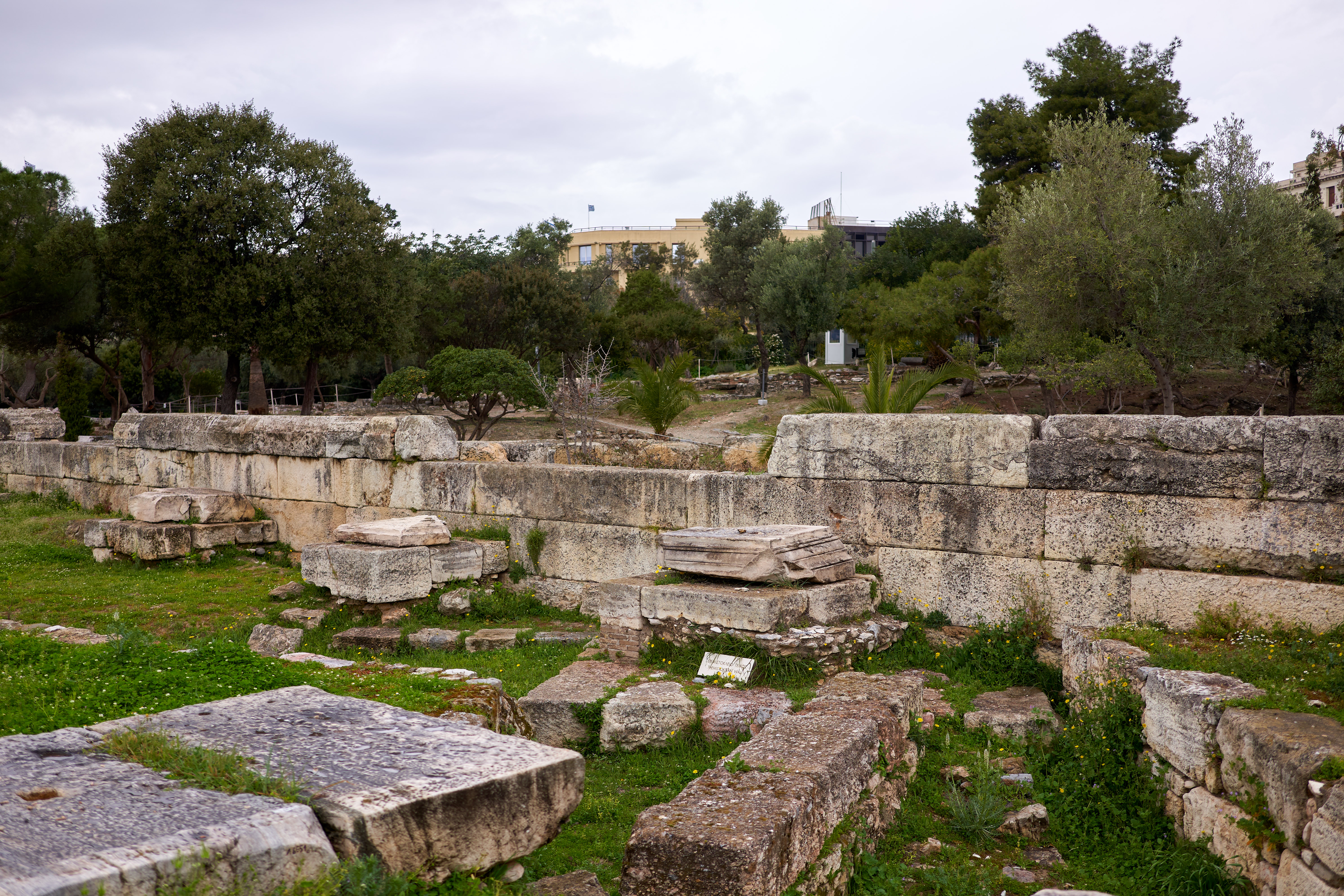 Remains of the Themistoclean Wall at the archaeological site of the Temple of Zeus in Athens.